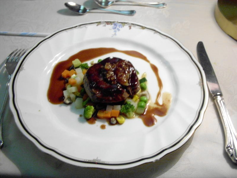 Hokutosei (train) dinner.